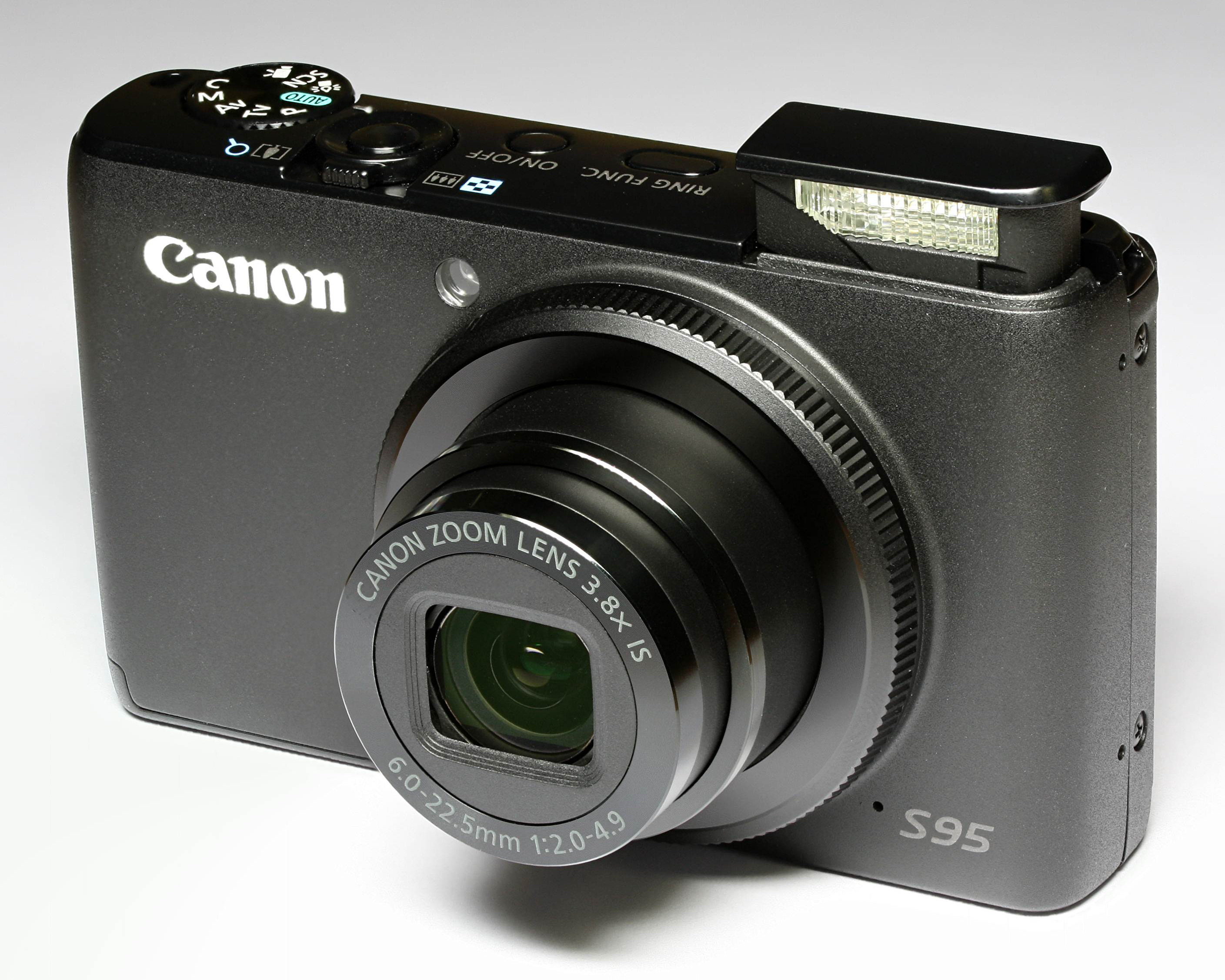 The front side of a turned on Canon PowerShot S95 with flash up